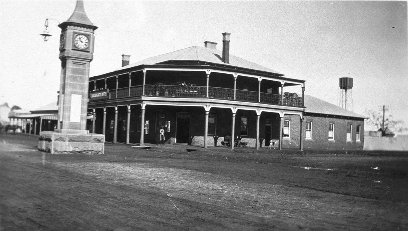 Image of Bogan Gate Hotel prior to its destruction by fire in December 1930